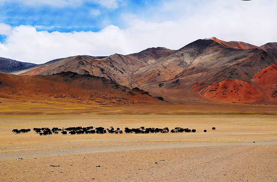 A herd of yak being led by a Changpa Nomad at Debring in Moorey Planes located on Manali-Leh Highway in Ladakh, Jammu-Kashmir, India